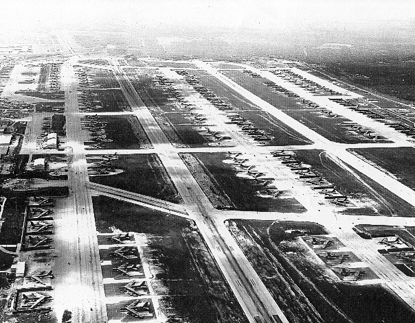 Circa 150 U.S. Air Force Boeing B-52 Stratofortress bombers at Andersen Air Force Base, Guam, in the fall of 1972, just before the "Linebacker II" offensive.